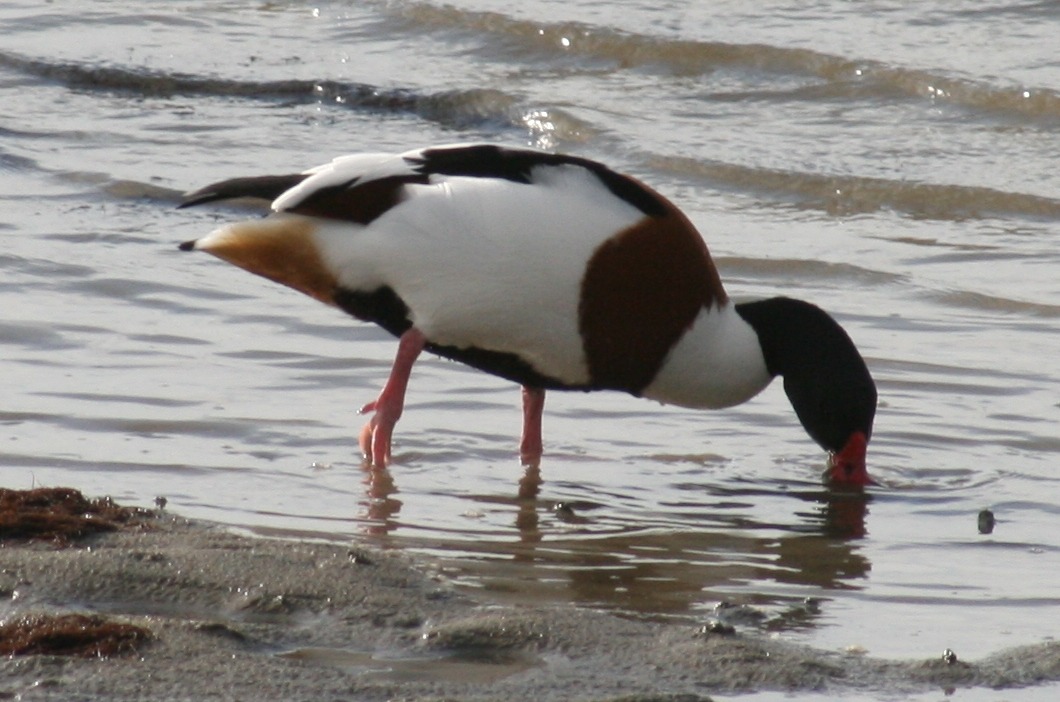 Tadorna tadorna fishing for snails on Terschelling (NL)